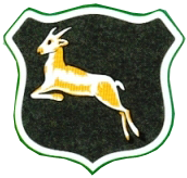 The first South Africa rugby team logo, which depicted an Springbok figure